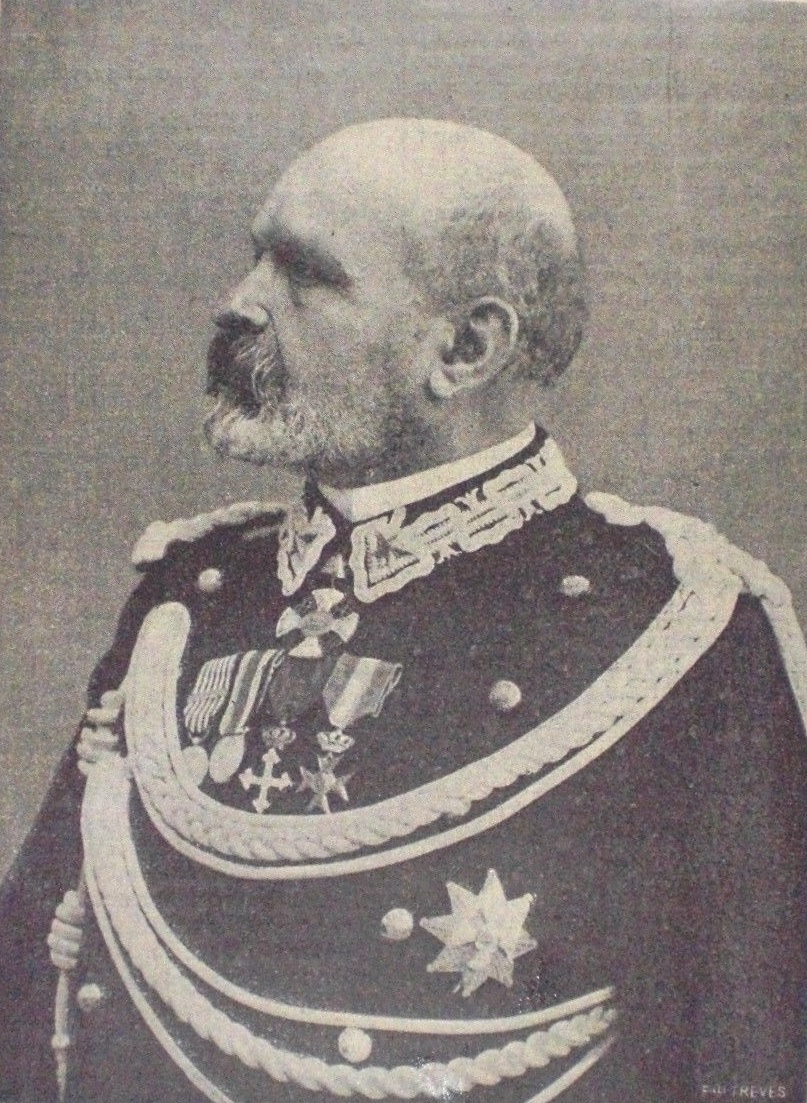 General di Giorgis